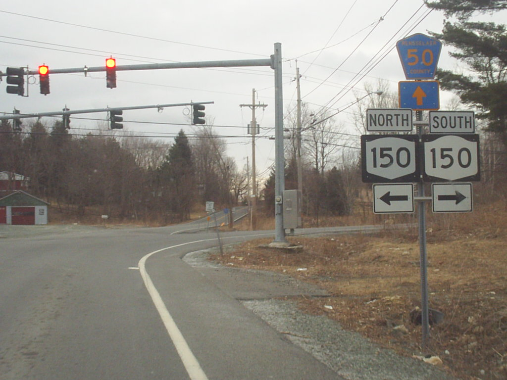 Rensselaer County Route 55 at the junction with New York State Route 150 in Stilers, New York.